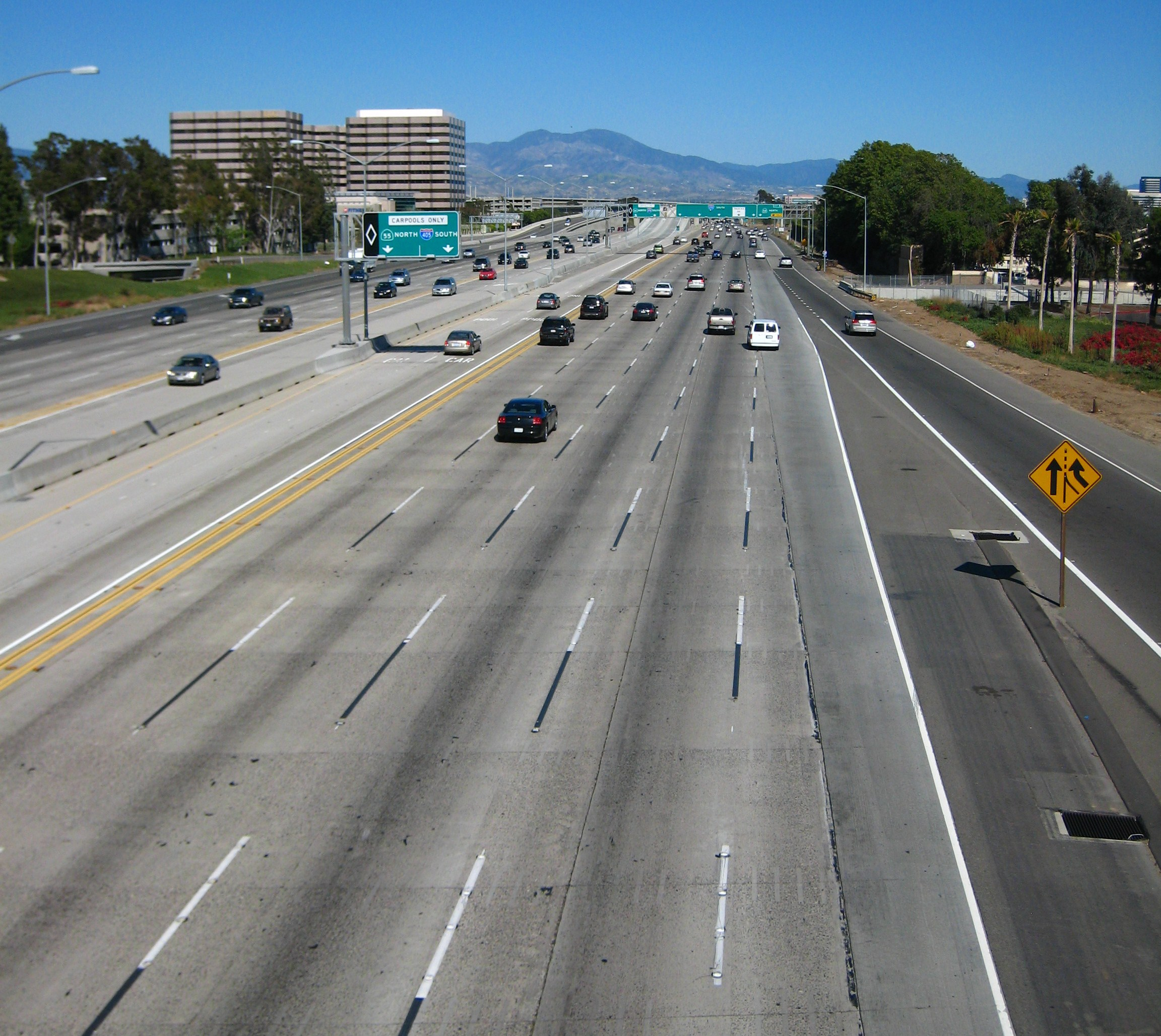 Interstate 405 at Costa Mesa, Orange County, Southern California, USA.